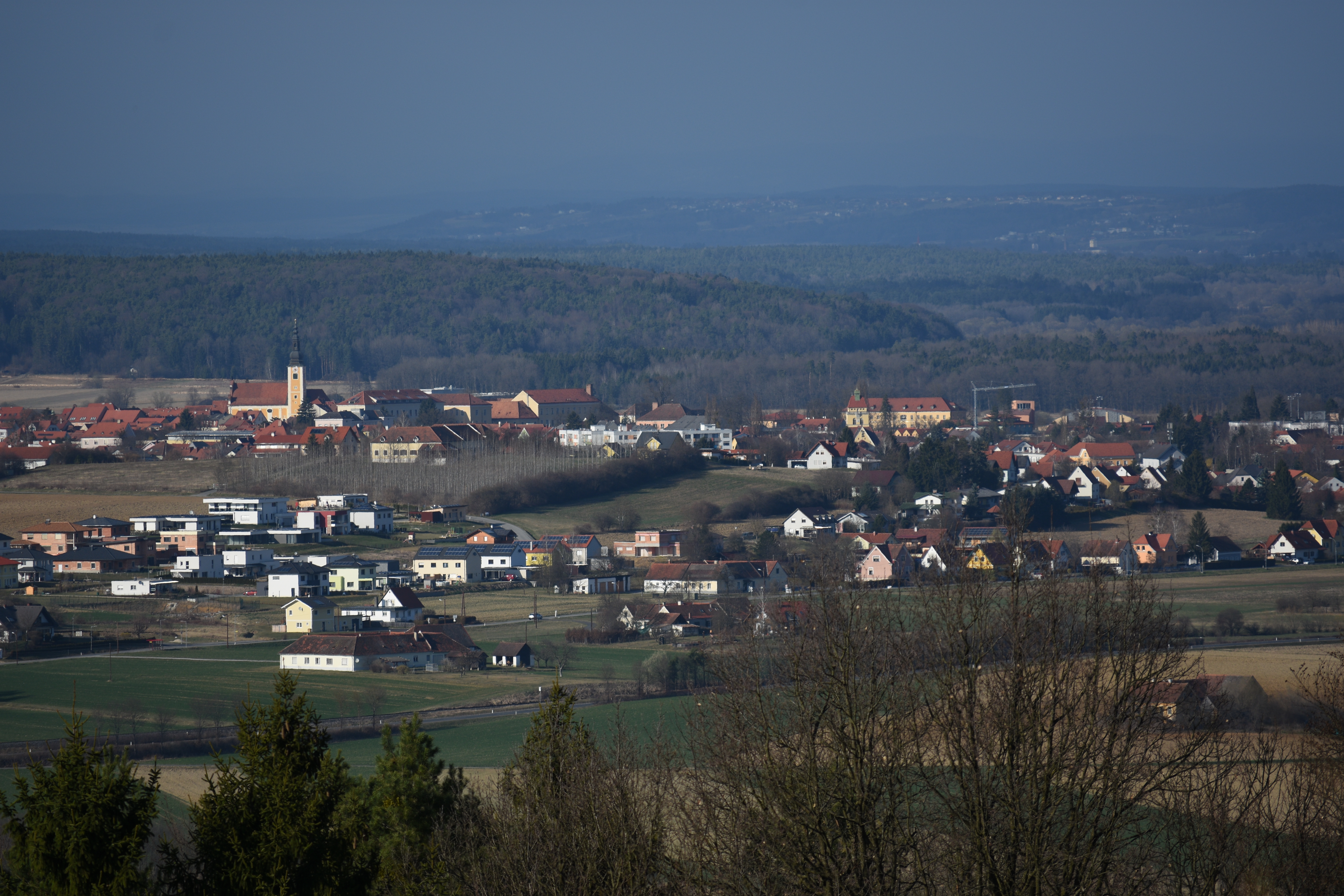 Fürstenfeld